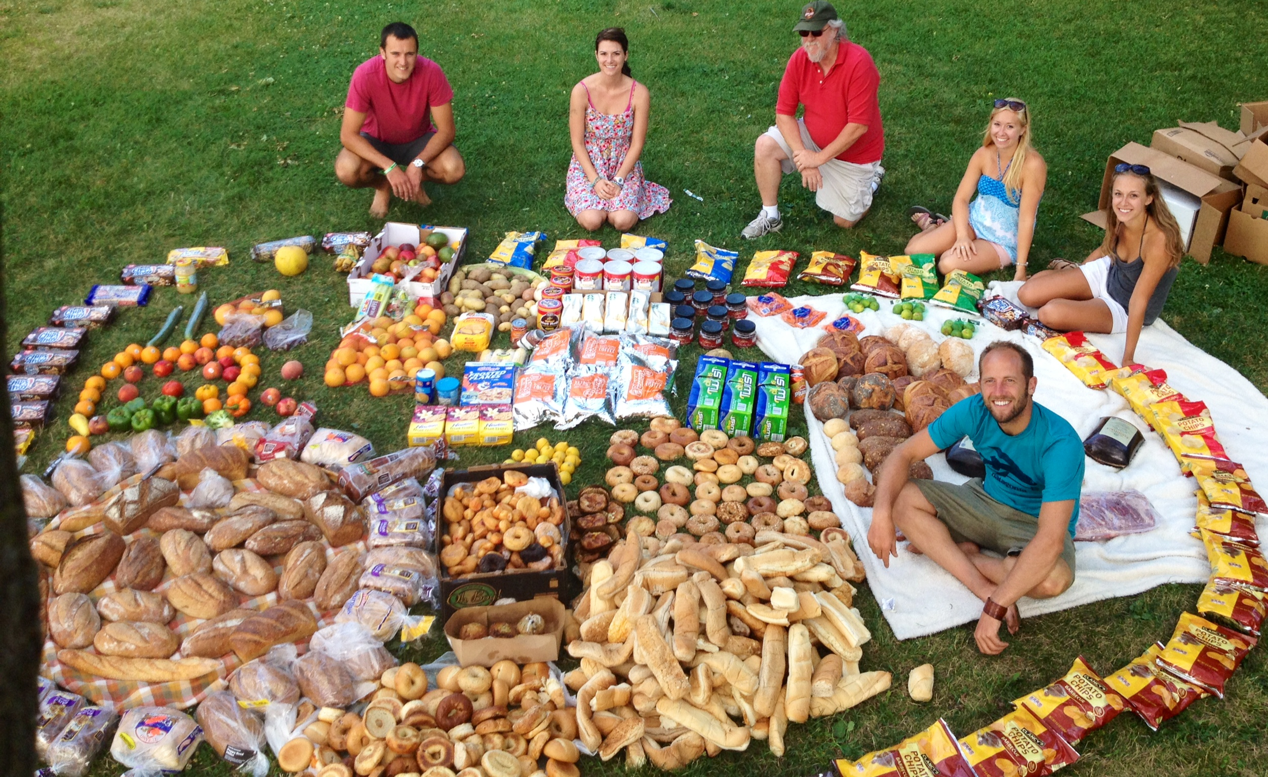 Rob Greenfield and one of his "Food Waste Fiascos".